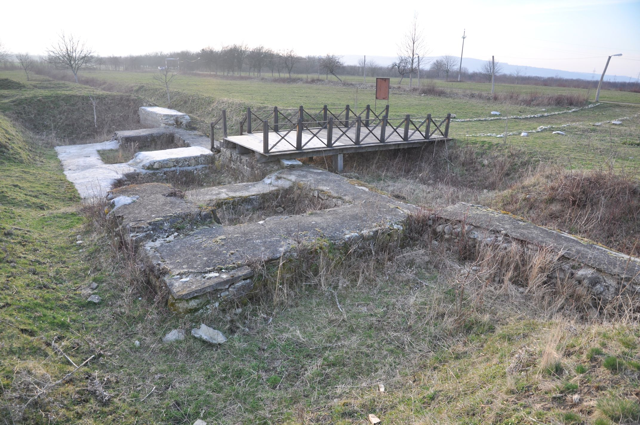 Roman fort Tibiscum - present day Jupa, Romania.